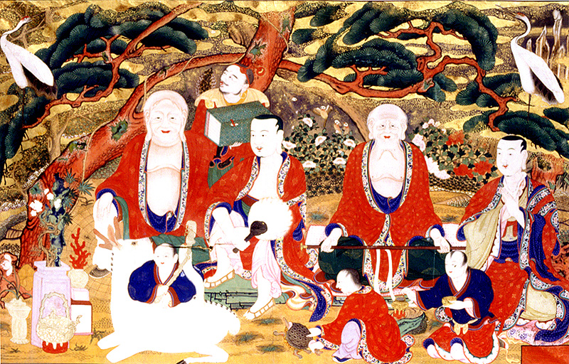 Painting of Arhats in Jingwansa, Seoul, South Korea